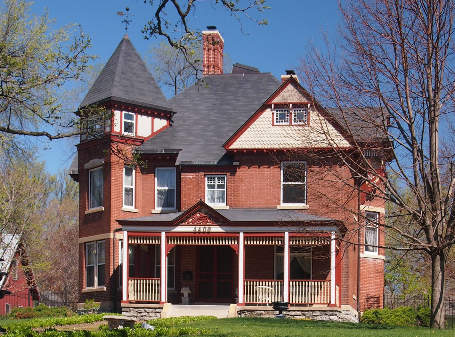 George W. Baird House, 4400 W 50th St, Edina, Minnesota, USA. Viewed from the south.